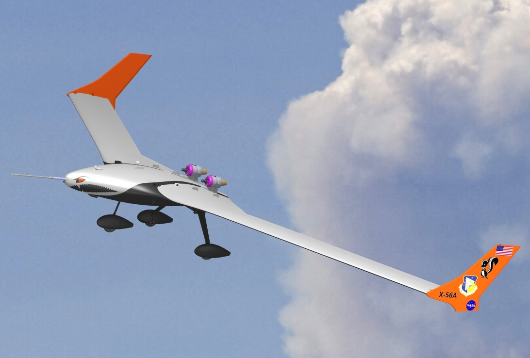 Simulated flight of the X-56A aircraft. The X-56A is an innovative, modular, unmanned fight research vehicle that will allow investigation of active flutter suppression and gust load alleviation technology.